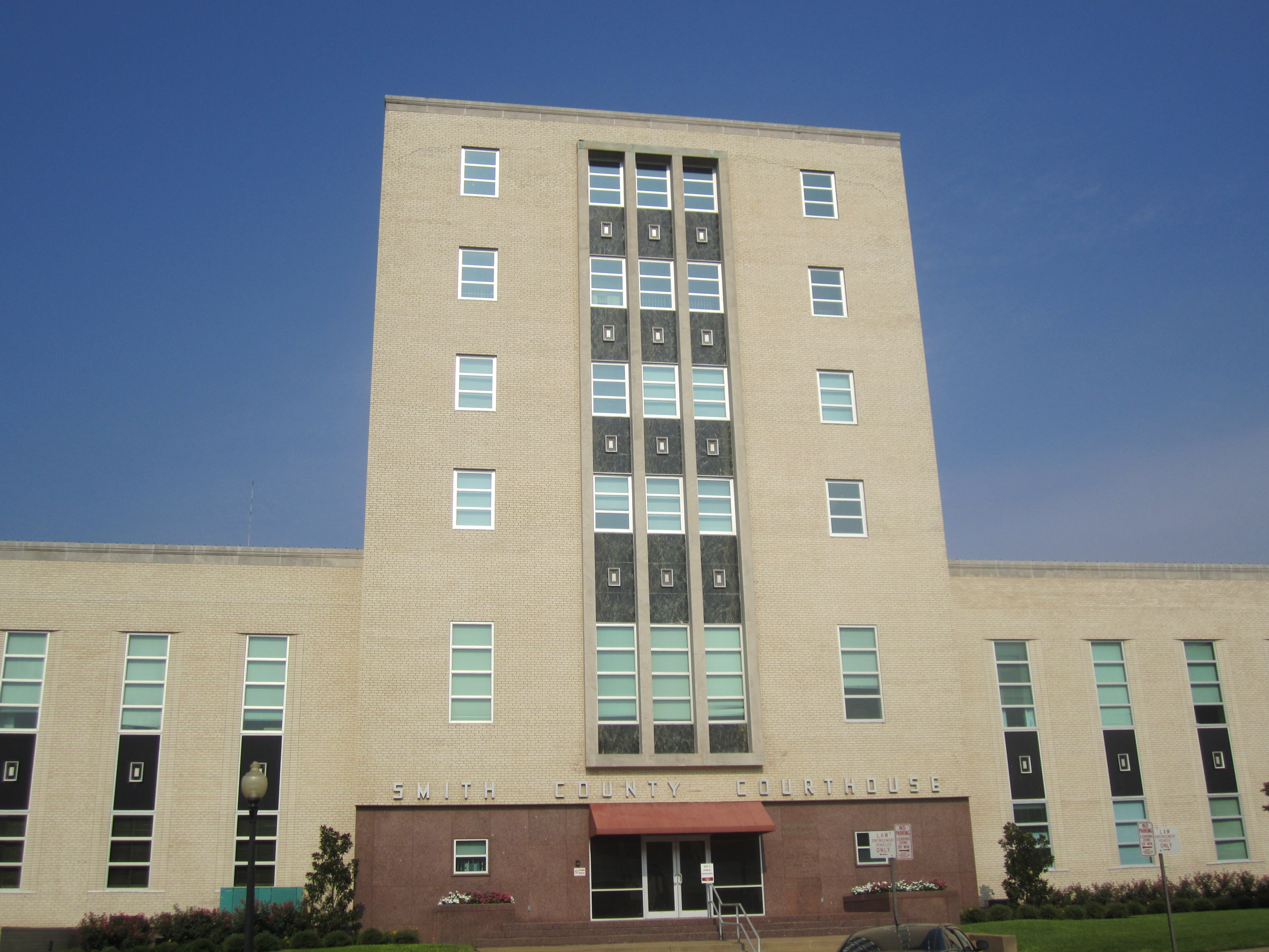 Smith County Courthouse. I took photo in Tyler, TX, with Canon camera.